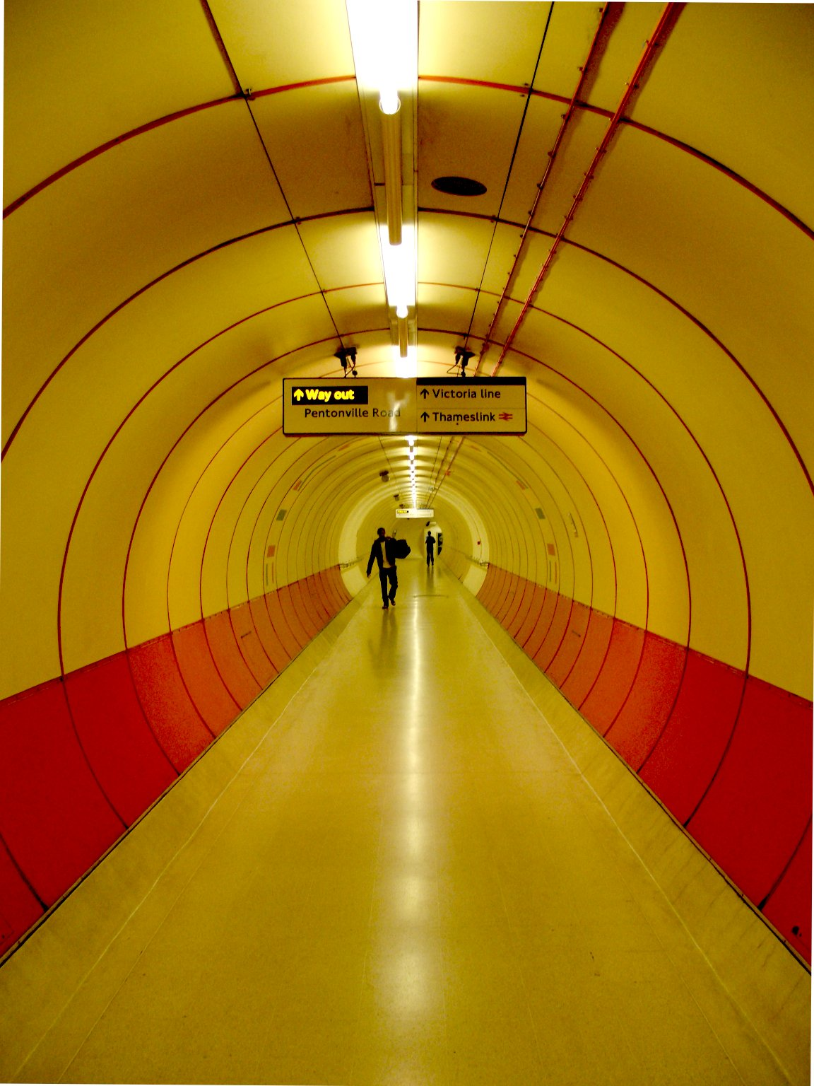 A tunnel leading to the Thameslink service at Kings Cross underground station. Edited version (denoised, lighter) of Image:Kings cross tunnel.jpg.